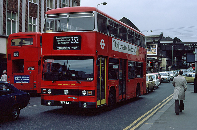 South Street A busy scene in central Romford. Traffic on this road has reduced significantly as a result of pedestrianisation from Exchange Street on the opposite side of the railway. The British Railways sign-writing visible on the bridge advertises frequent electric train services and dates back to the electrification of the line from Liverpool Street in 1960.